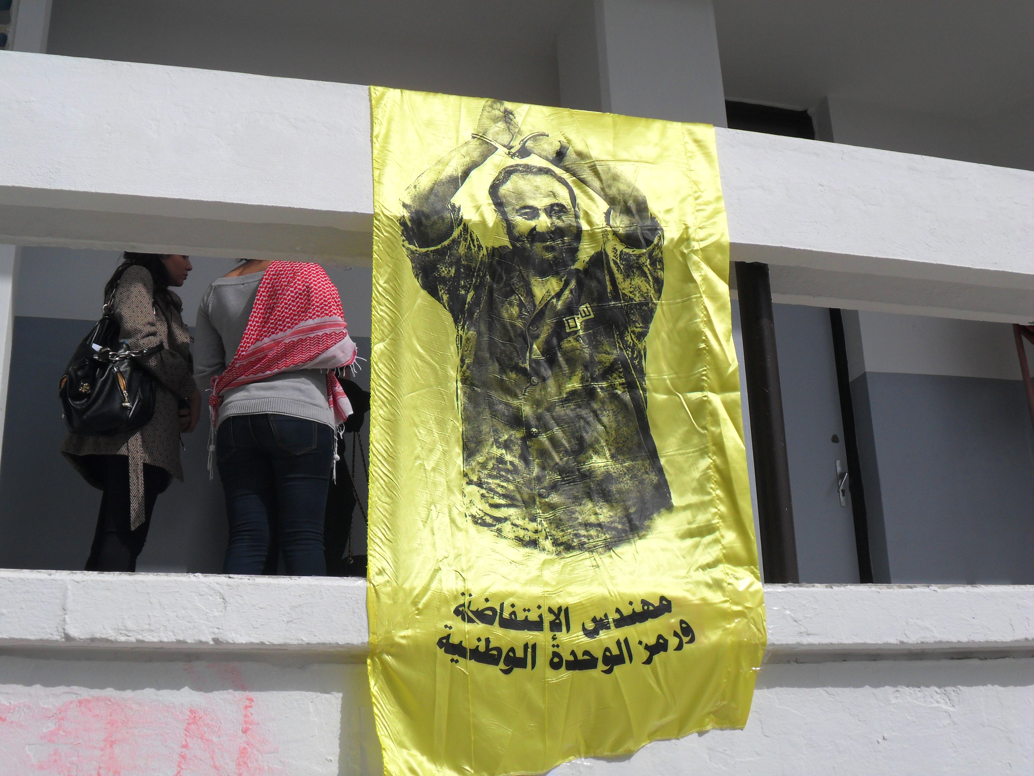 Flag in effigy of Marwan Barghouti, during World Social Forum held in Tunisia